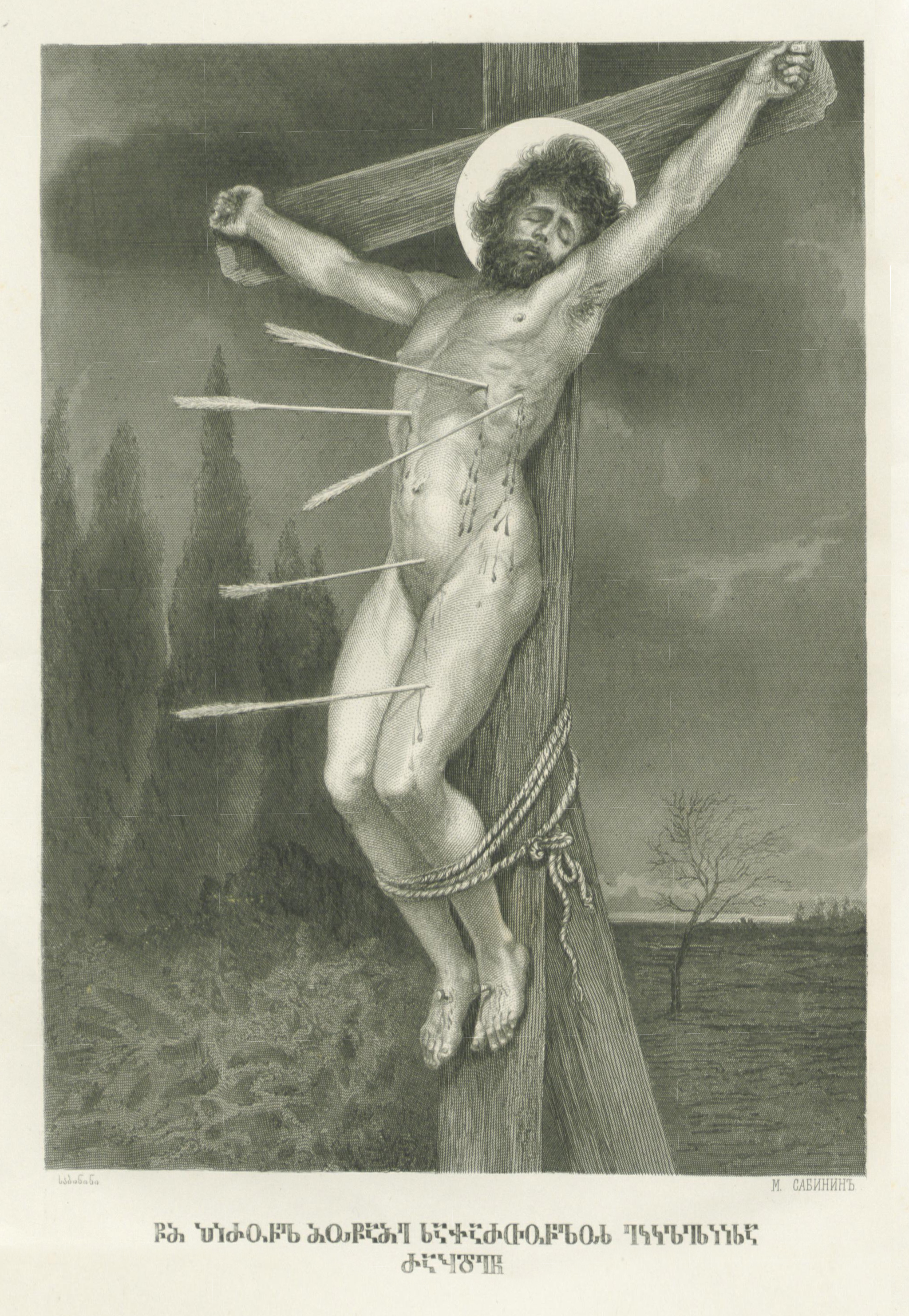 St. Rajden the Protomartyr (5th century)